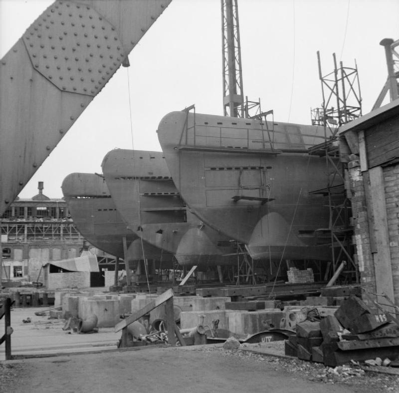 The British Army in North-west Europe 1944-45 Incomplete German U-boats abandoned at the Blohm and Voss shipyard in Hamburg, 4 May 1945.